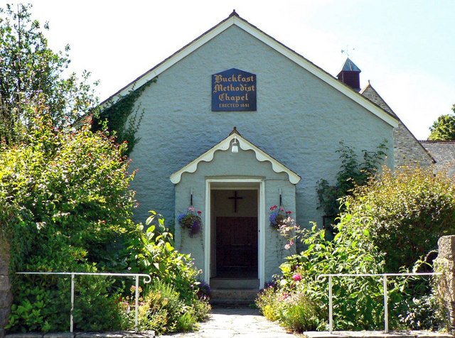 Buckfast Methodist Chapel, Buckfast Abbey